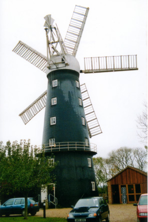 Hoyle's Mill, Alford, Lincolnshire